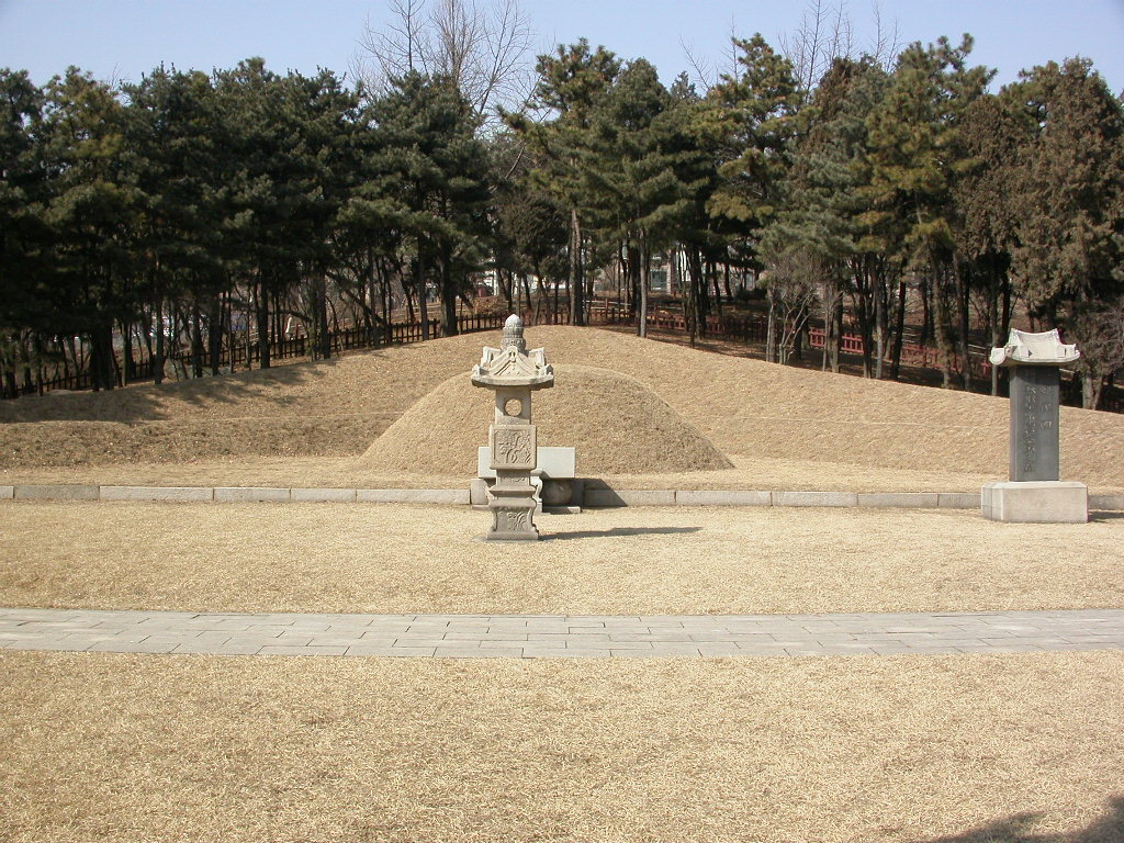 Tomb of Baekbeom Kim Gu